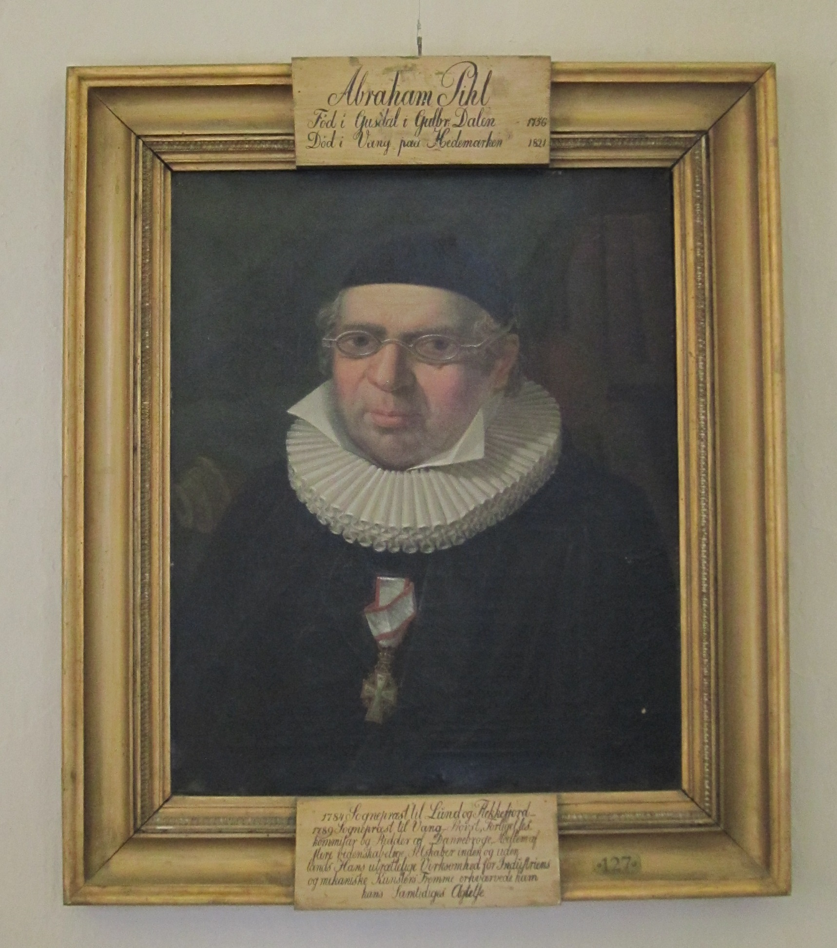 Abraham Pihl (priest), portrait in Vang Church at Ridabu, the church he constructed. Painting by Johannes Flintoe